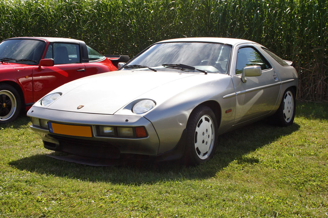 Silver Porsche 928 S at Classic Days Schloss Dyck 2012. View: front left